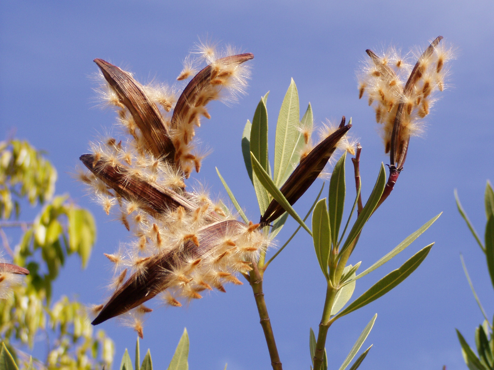 Oleander seeds.